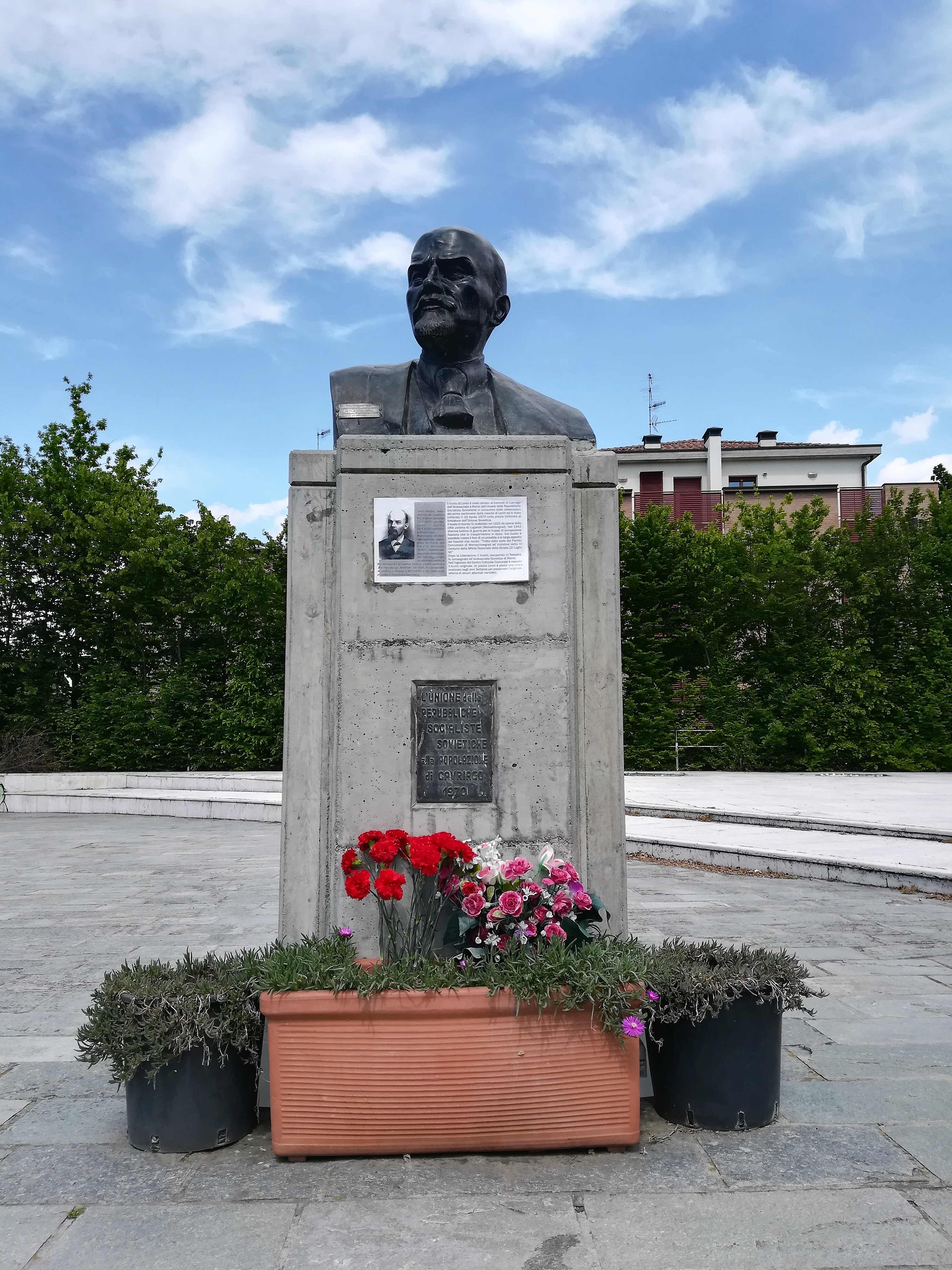 Lenin's Bust- Cavriago (Province of Reggio Emilia)